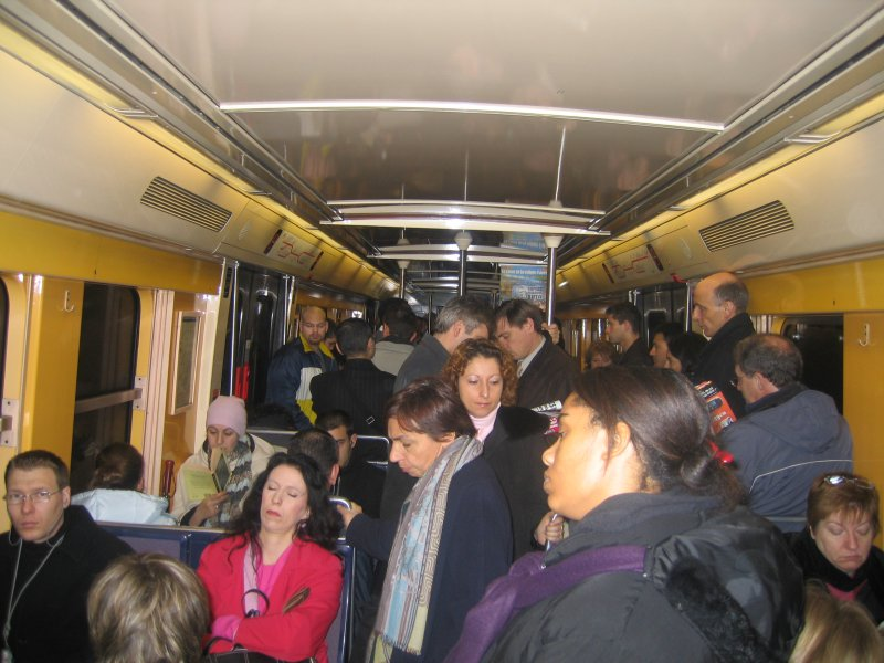 Inside an RER A